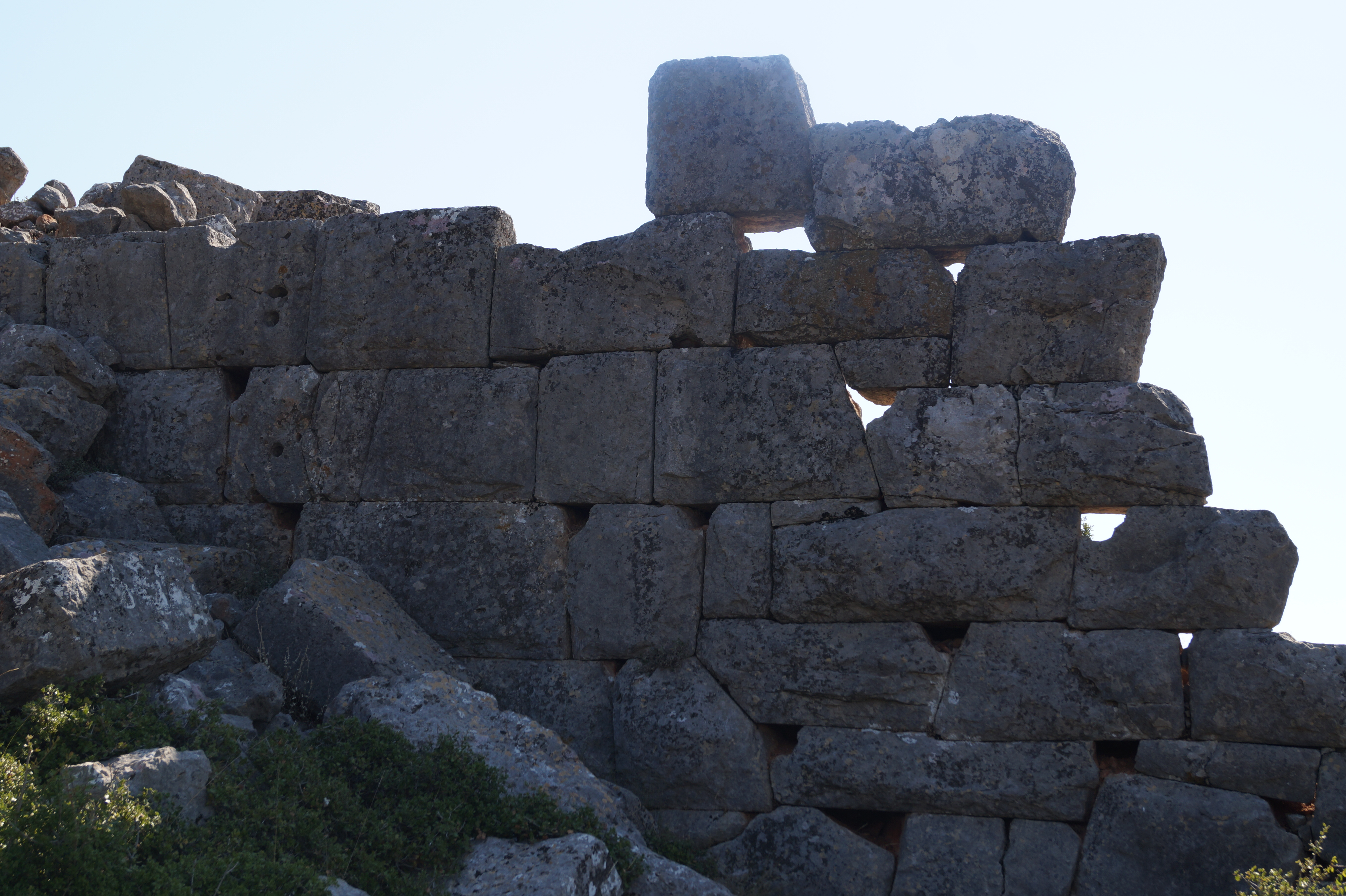 Fthiotida, Greece: Ancient city of Drymaia, part of the west wall.